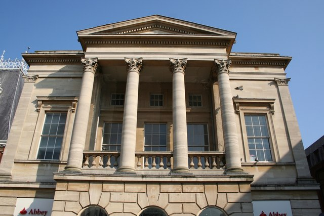 Corn Exchange Lincoln Corn Exchange had its foundation stone laid in 1847, now converted into shops.